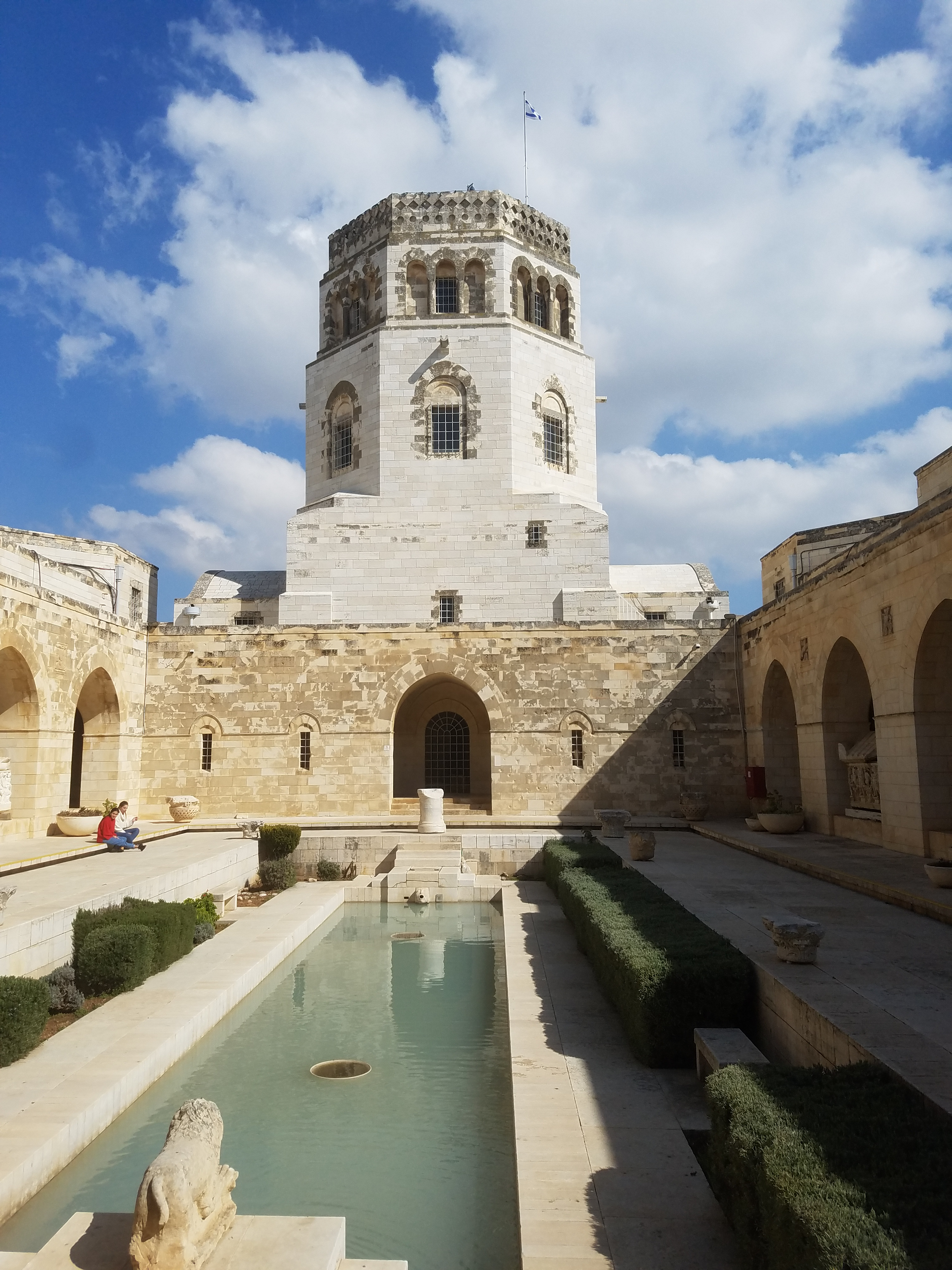 Rockefeller Museum courtyard